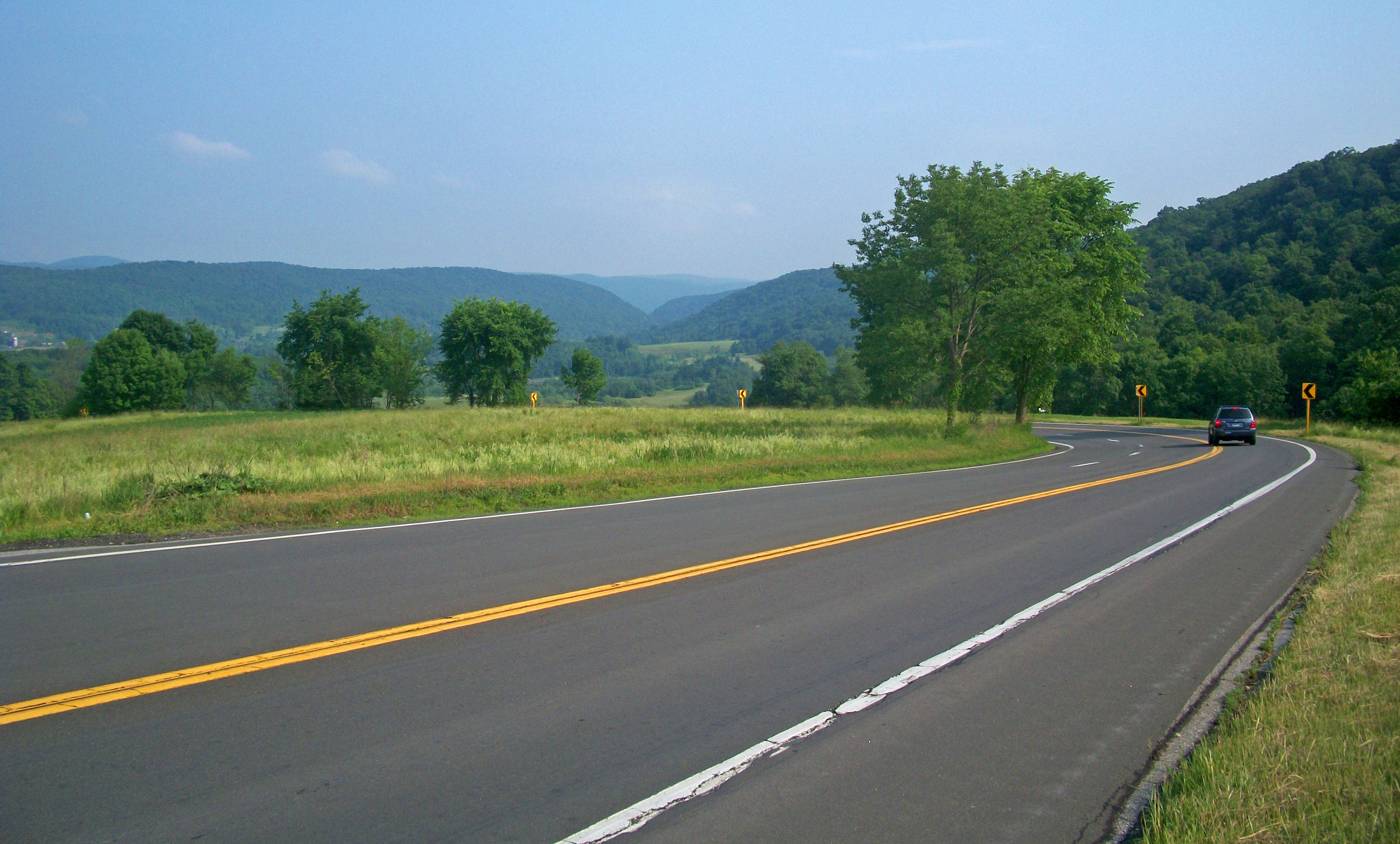 View looking along eastbound US 44 at hairpin turn a mile east of Amenia, NY, USA. This view takes in much of the Harlem Valley to the south